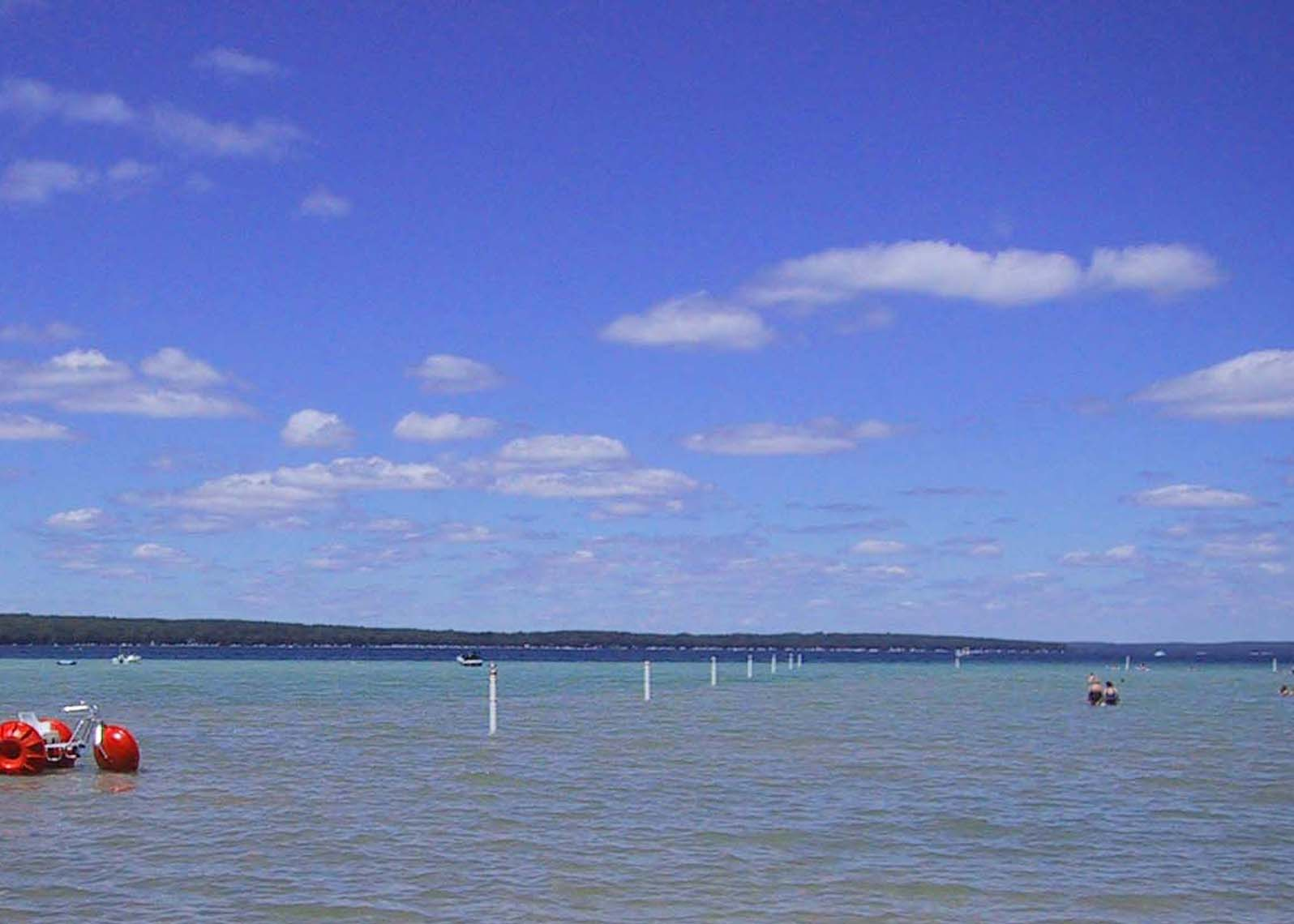 Michigan's Higgin's Lake, Photo taken from South Higgin's Lake State Park, summer 2004. H.G. Judd